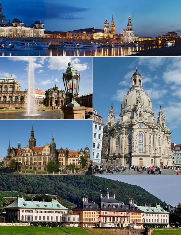 Photo montage of Dresden, Germany. Clockwise:Dresden at night, Dresden Frauenkirche, Schloss Pillnitz,Dresden Castle and Zwinger